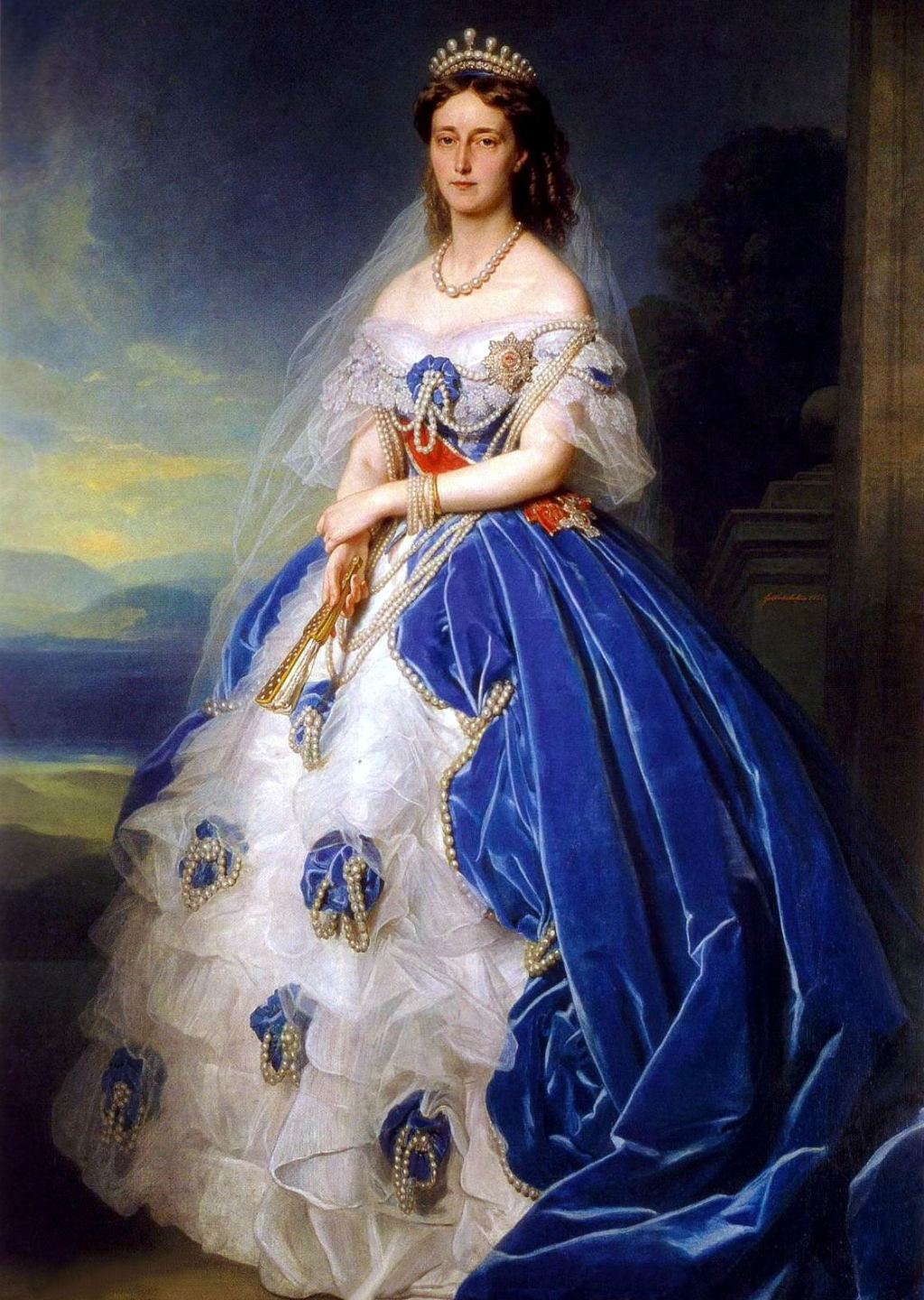 Queen Olga of Württemberg (1822-1892), nee Grand Duchess of Russia, 1867